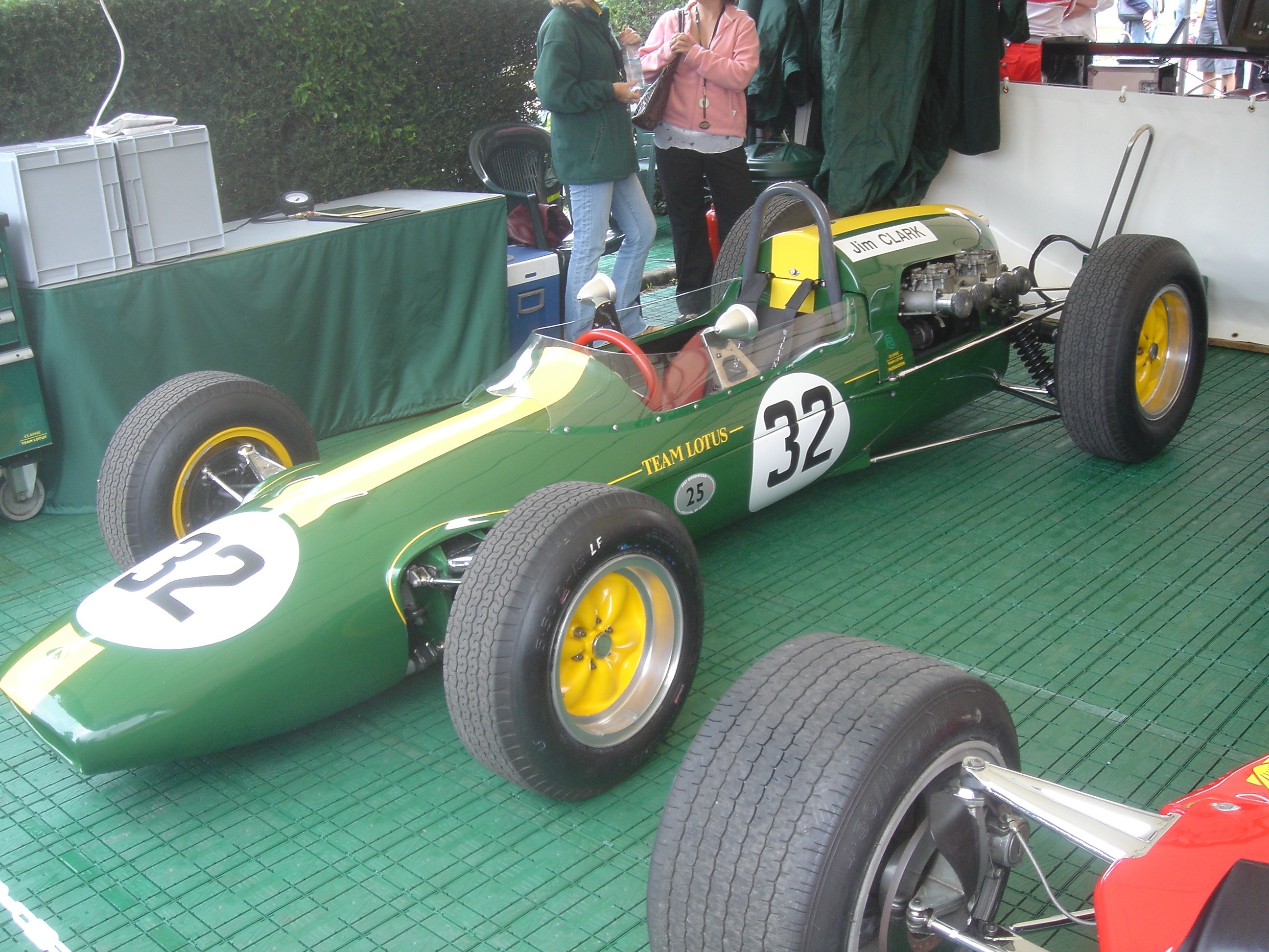 Goodwood Festival of Speed 2007 - Lotus Climax 25 (1963) in F1 paddock